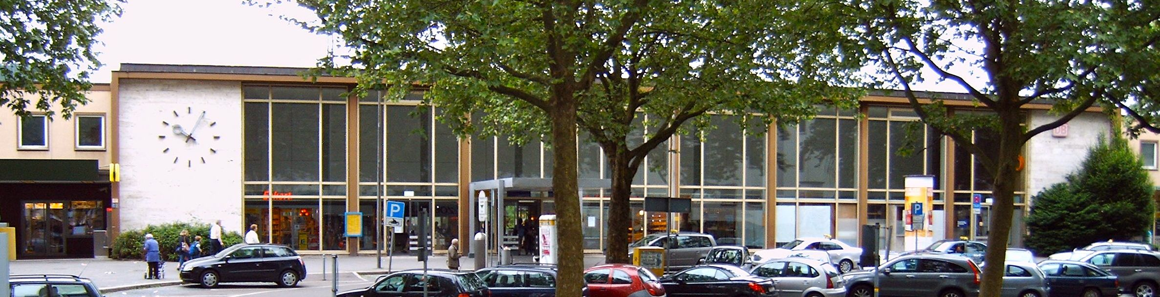 Göppingen train station